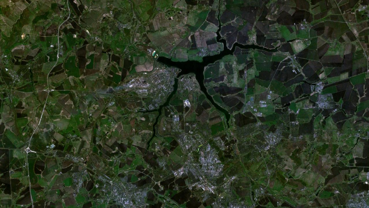 Novomoskovsk, Russia